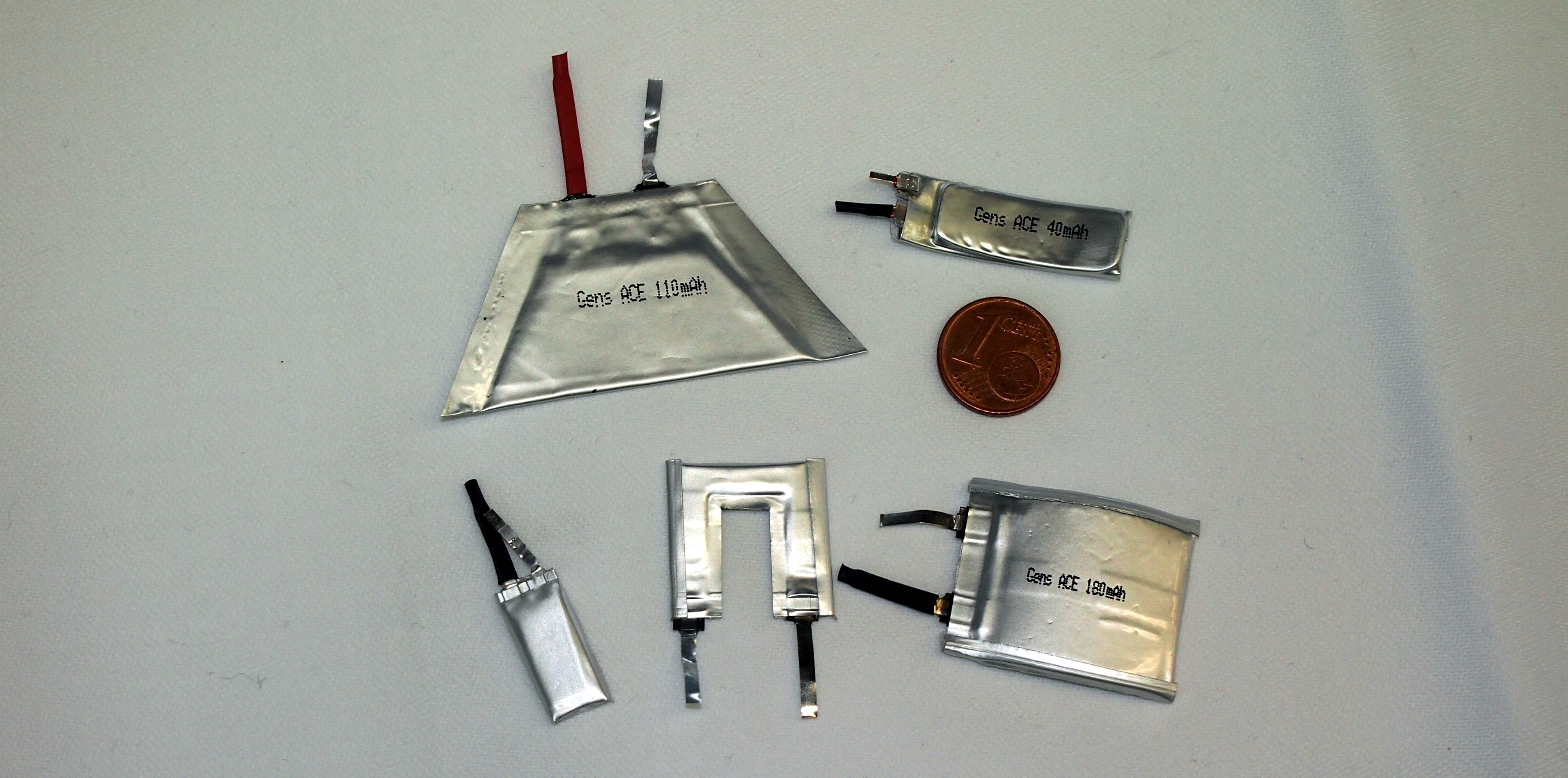 Several Gens ACE LiPo-Batterypacks in different sizes, designs and capacity, considered to power wearable computing devices, manufactured by GREPOW Battery Co., Ltd., shown at Wearable Technologies Conference 2014 in Munich, Germany